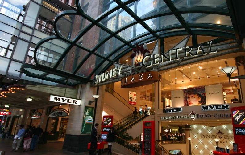 Sydney Central Plaza Main Entrance off Pitt Street Mall